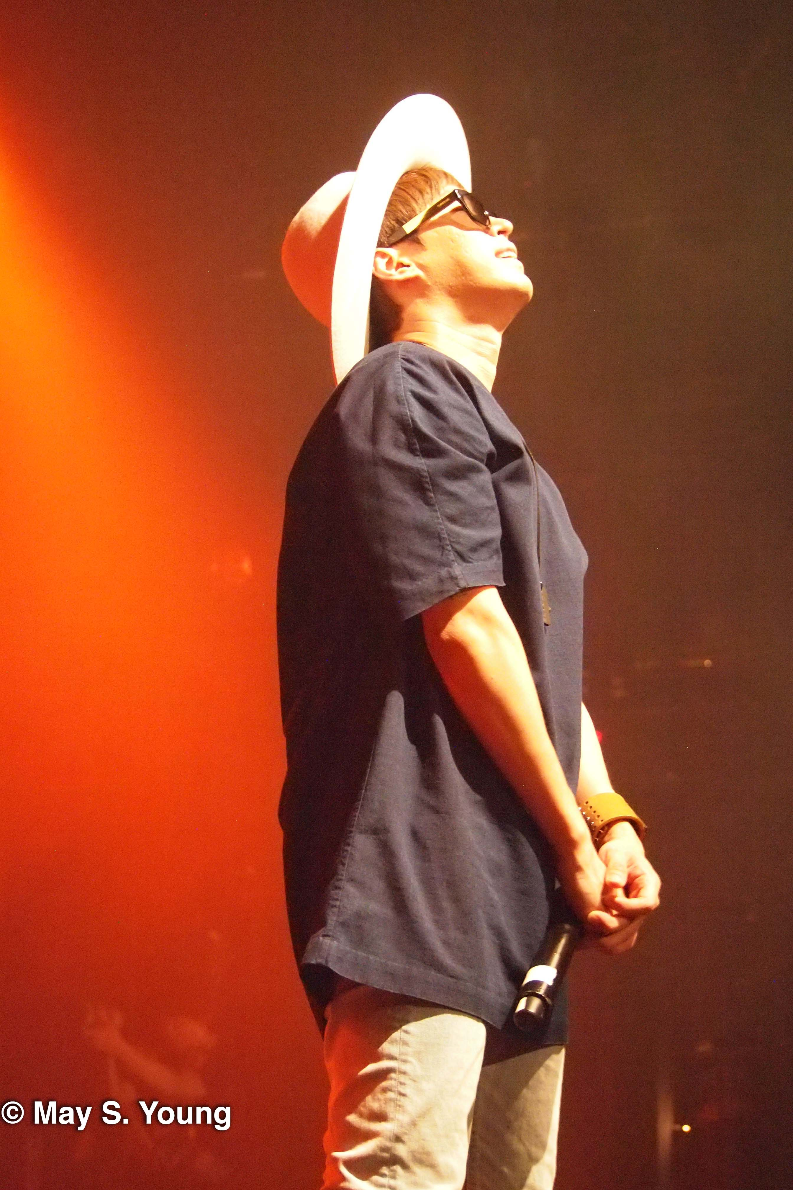 OLYMPUS DIGITAL CAMERA Epik High, Master Wu & DJ Soulscape at Best Buy Theater, New York City - 6/12/2015